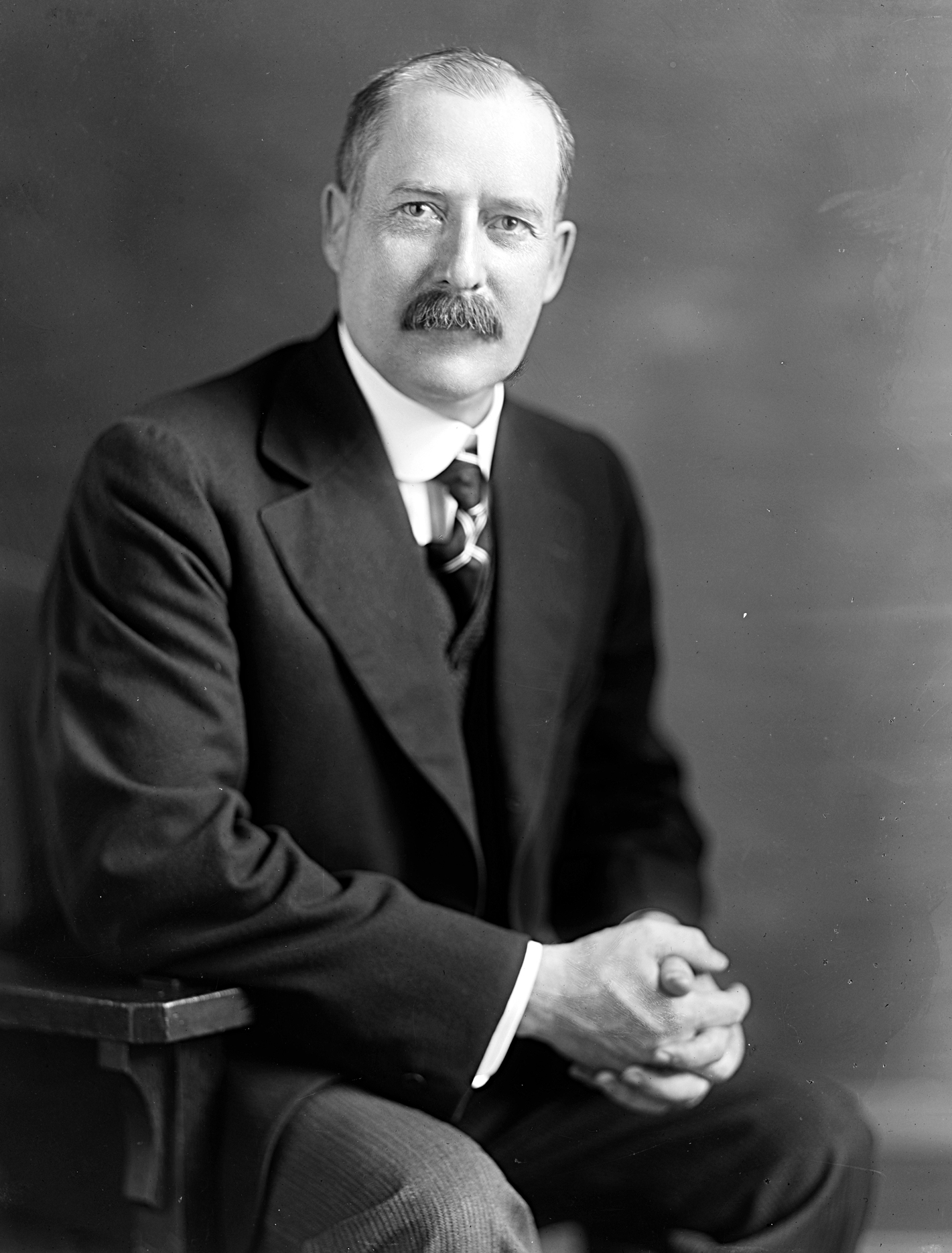 Michael Reilly, US Representative from Wisconsin